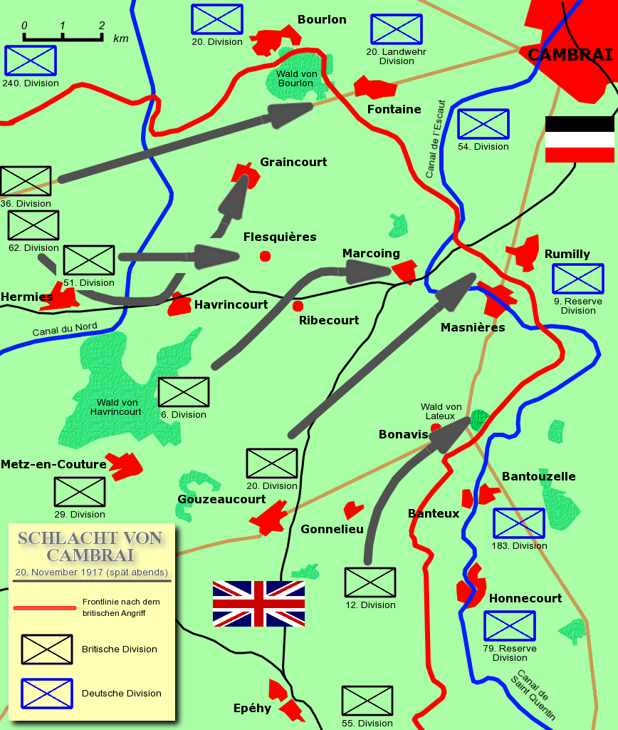 Source: self-made by User:W.wolny Low-Res-Version: Image:509px-Schlacht von Cambrai - Truppen GB-Angriff.png